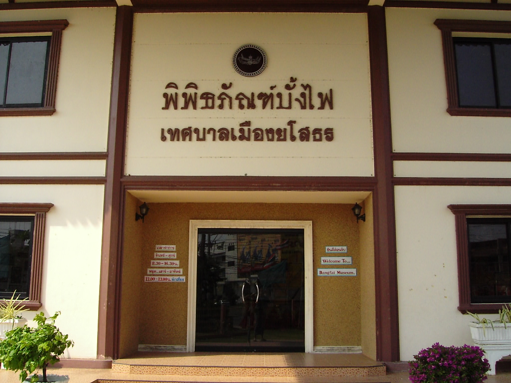 Entrance to Rocket Festival Museum, Yasothon, Thailand, photographed by me, Pawyi Lee. Entrance reads: Pitpitapun Bung Fai - Tesabon Meung Yasothon ("Bung Fai Museum, Yasothon Municipality") - Thaimoss 02:15, 19 February 2007 (UTC)